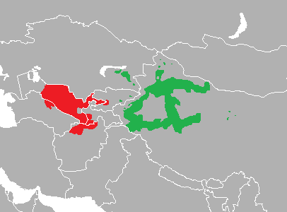 Karluk language (also known as Eastern Turkic) Eastern branch (for instance modern Uyghur) Western branch (for instance modern Uzbek)